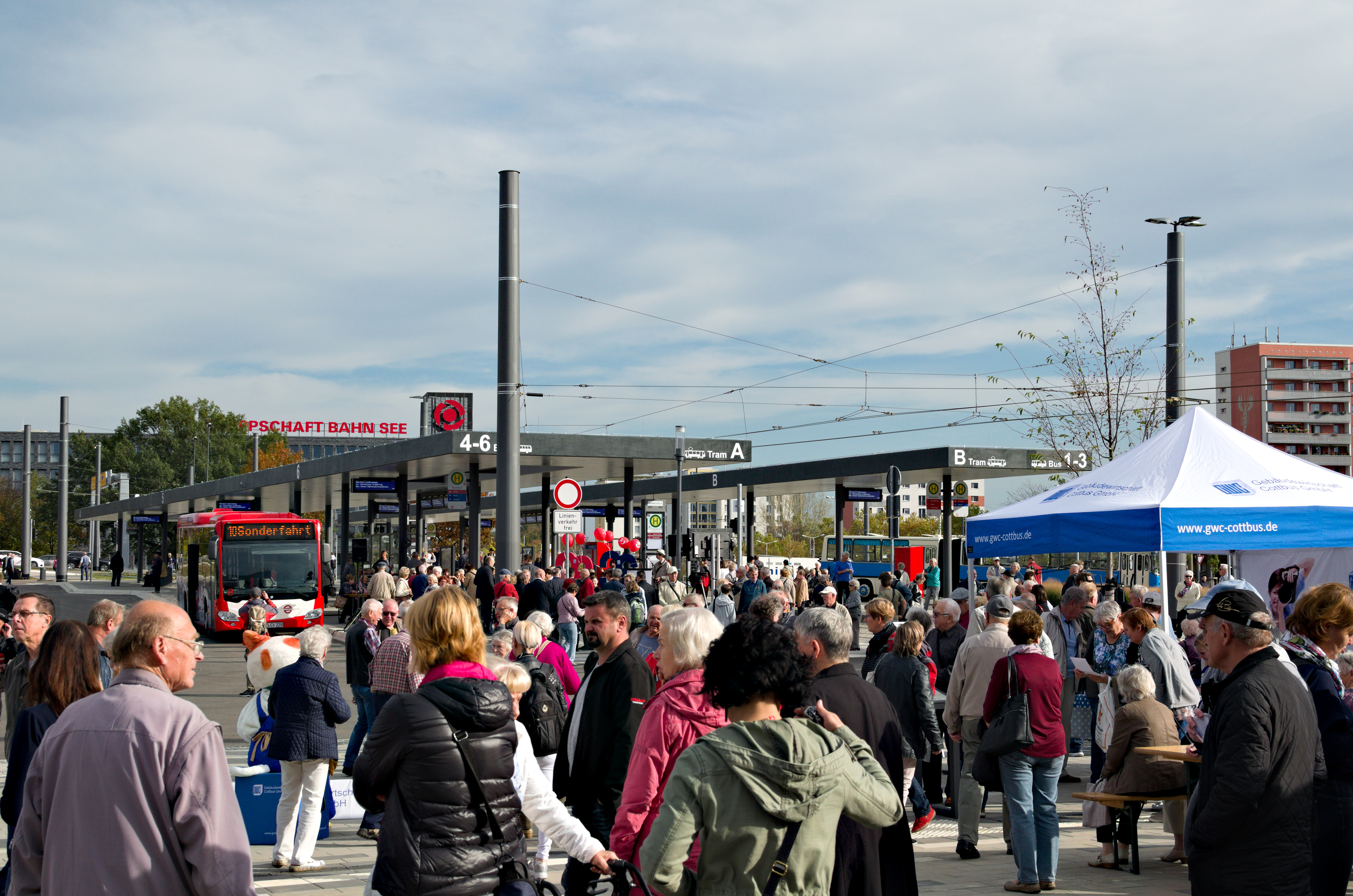 Opening ceremony of the new combined rail/tram/bus interchange at Cottbus main station.